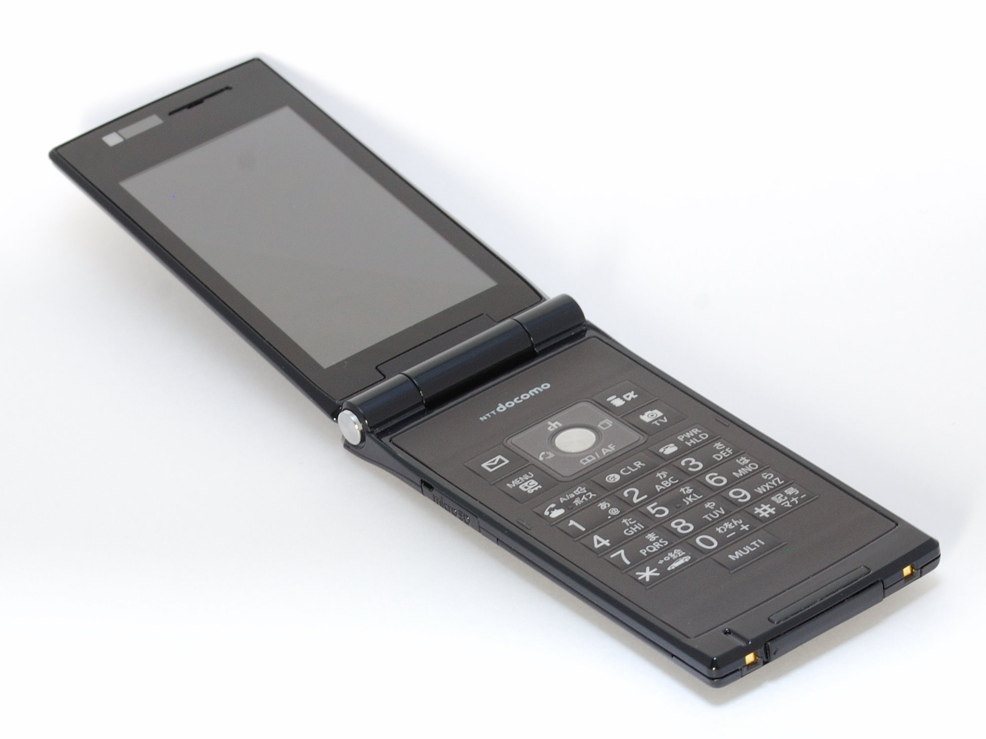 P706iμ (BLUE BLACK) open